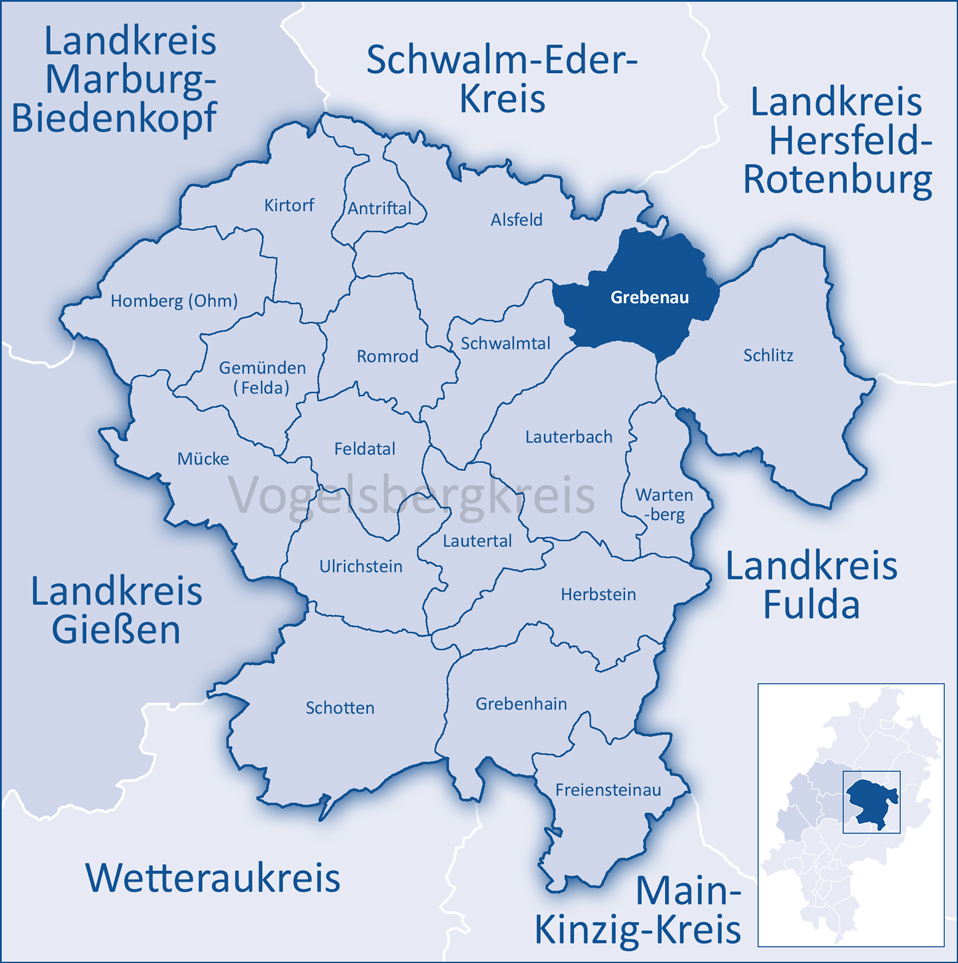 The map shows a district in the area of Vogelsbergkreis